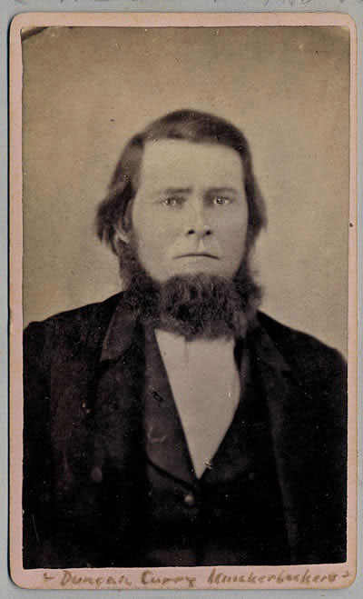 Carte de visite photograph of Duncan Curry, first president of the Knickerbockers Base Ball Club.